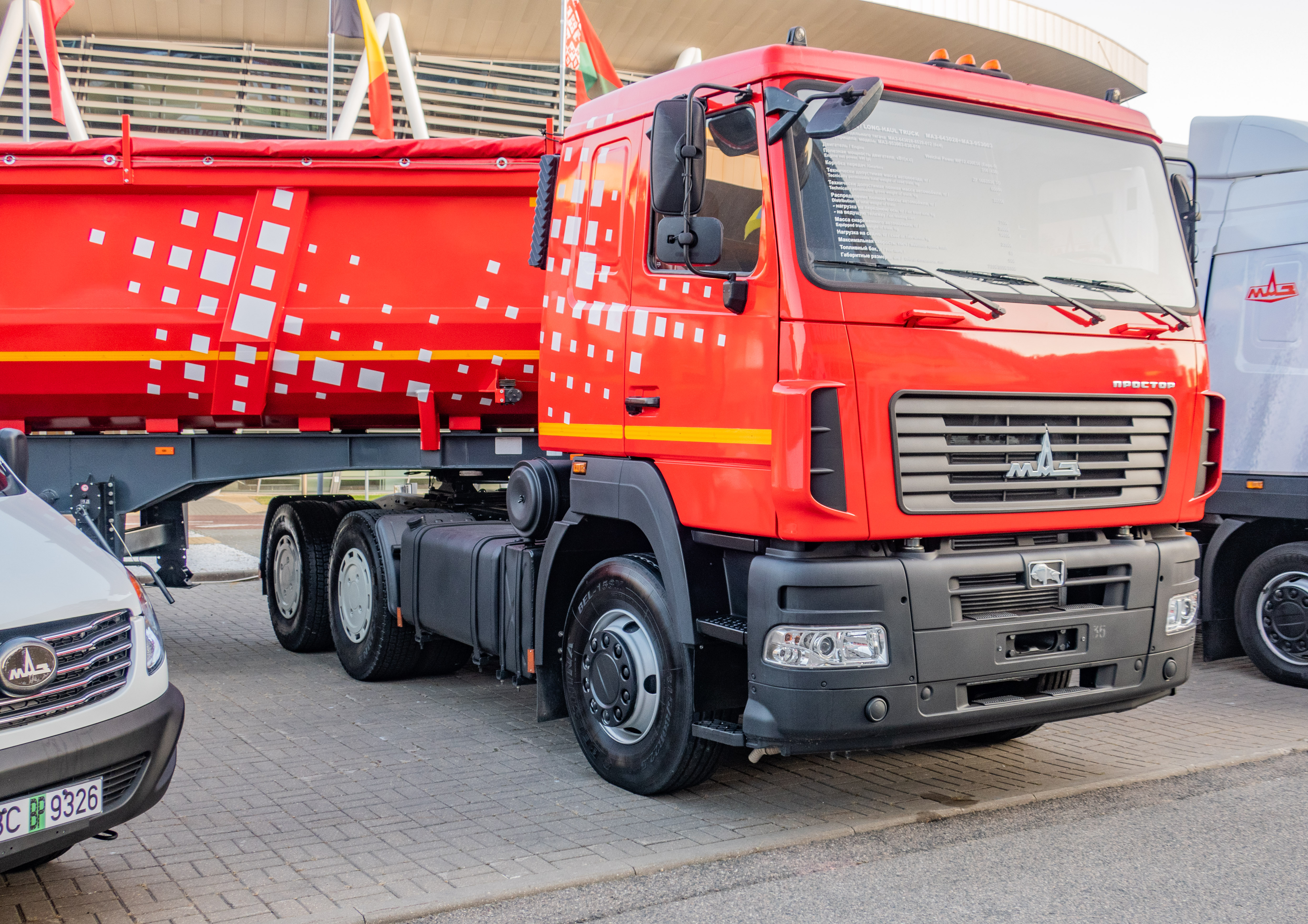 MAZ-643028 long-haul truck. "Budpragres-2019" exhibition, Minsk, Belarus